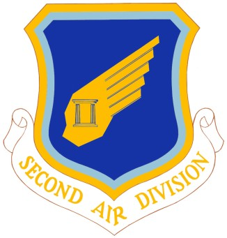 Emblem of the en:2d Air Division 0002